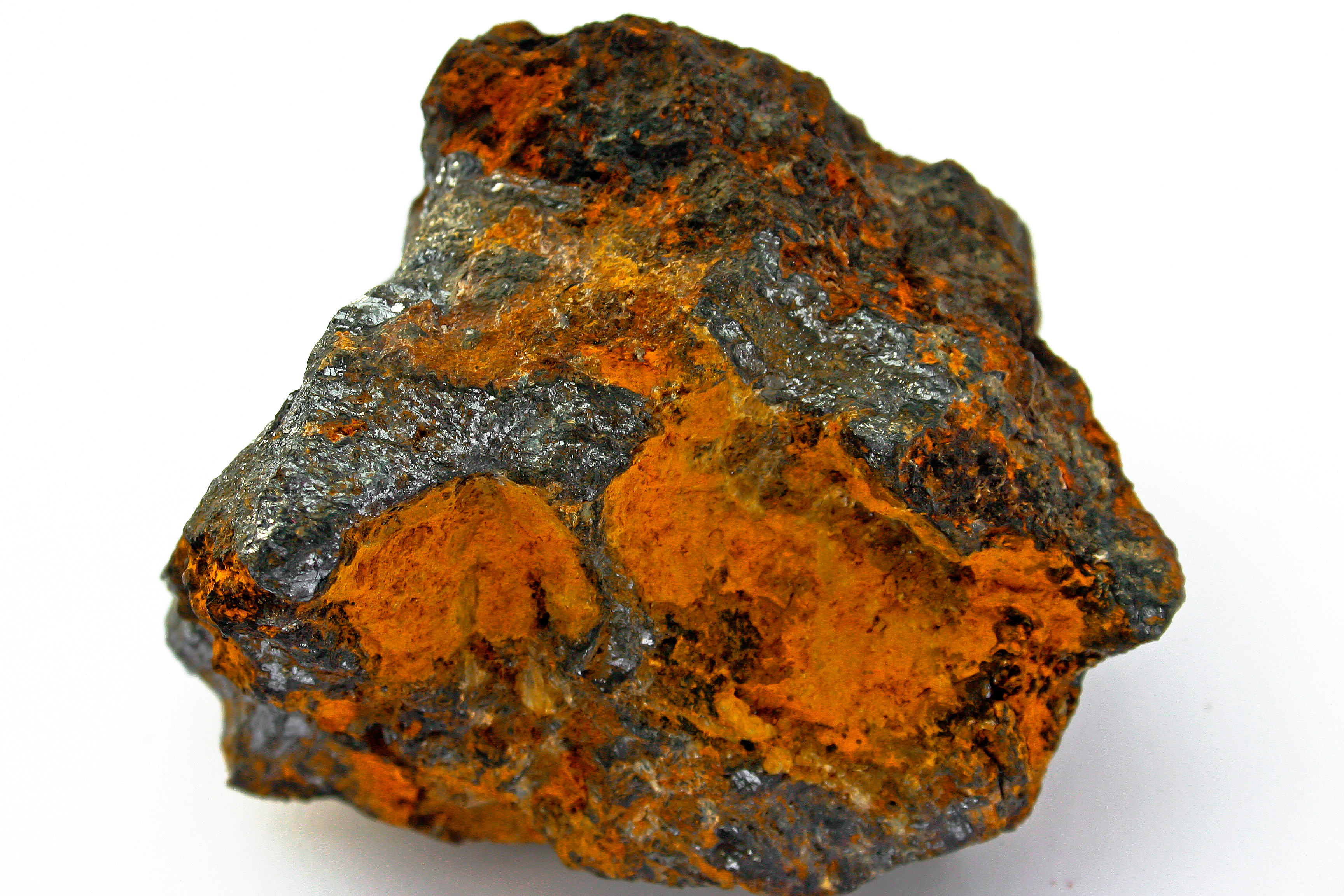 A specimen of Galena and Limonite